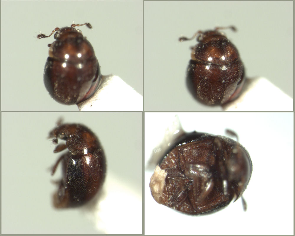 adult specimen of an indet. rentoniine (thymaline) trogossitid beetle. Maungatautari, South cell, inside cell, Transect 1, Pitfall trap G. Waikato, New Zealand, 2008-Jan 2009, C.H. Watts.